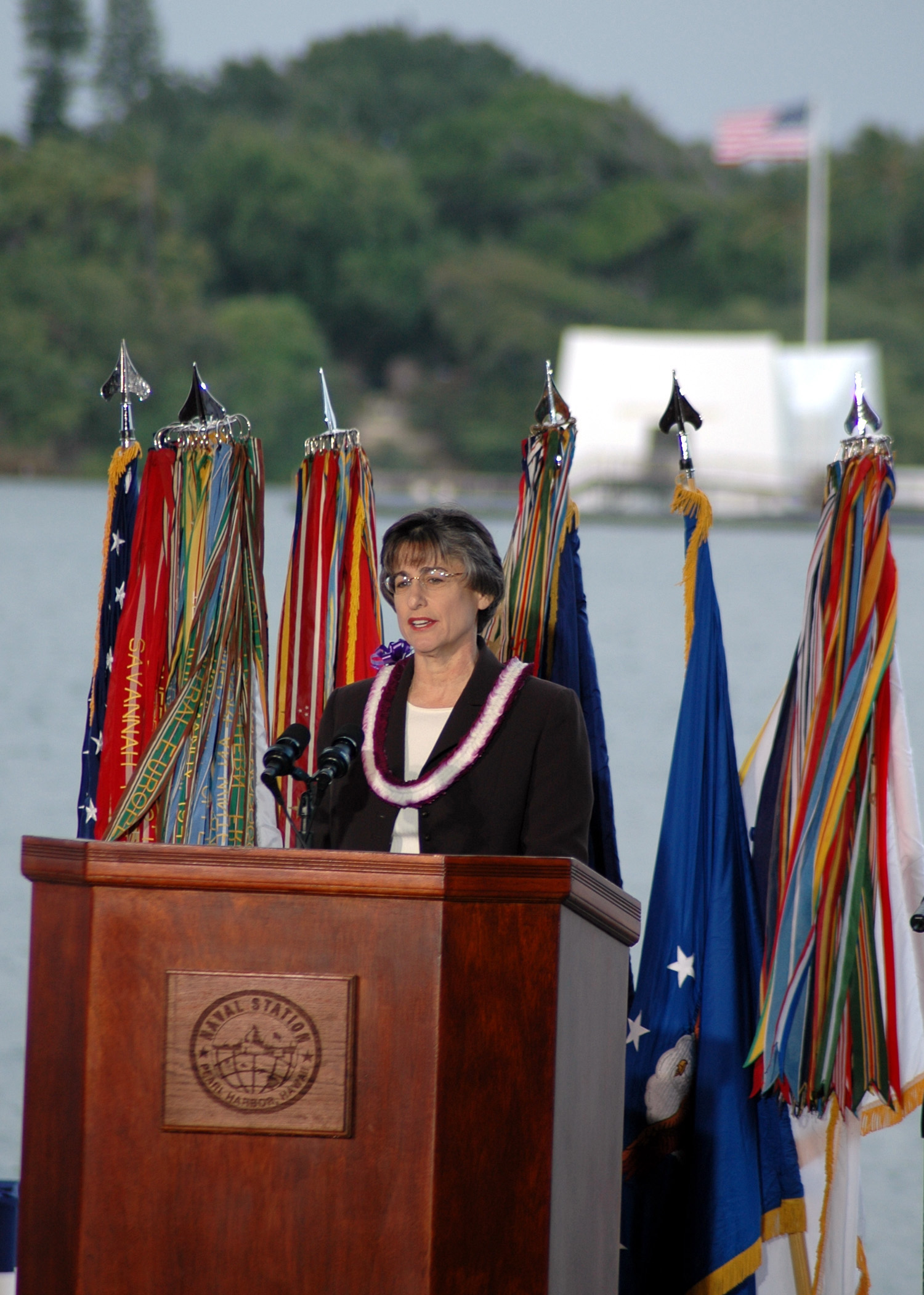 Original caption: "061207-N-4965F-028 Pearl Harbor, Hawaii (Dec. 7, 2006)- The Honorable Linda Lingle, Governor of the State of Hawaii, delivers her comments during a joint U.S. Navy/National Park Service ceremony commemorating the 65th Anniversary of the attack on Pearl Harbor. More than 1,500 Pearl Harbor survivors, their families and friends from around the nation joined more than 2,000 distinguished guests and the general public for the annual observance."